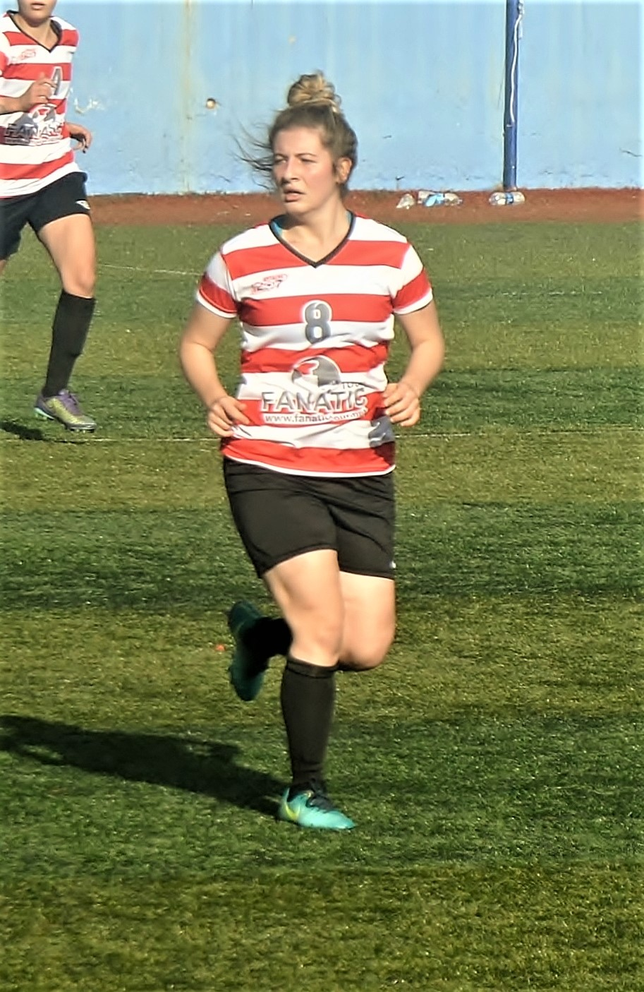 Serra Çağan playing for 1207 Antalya Spor in the 2017-18 Turkish Women's First Football League.